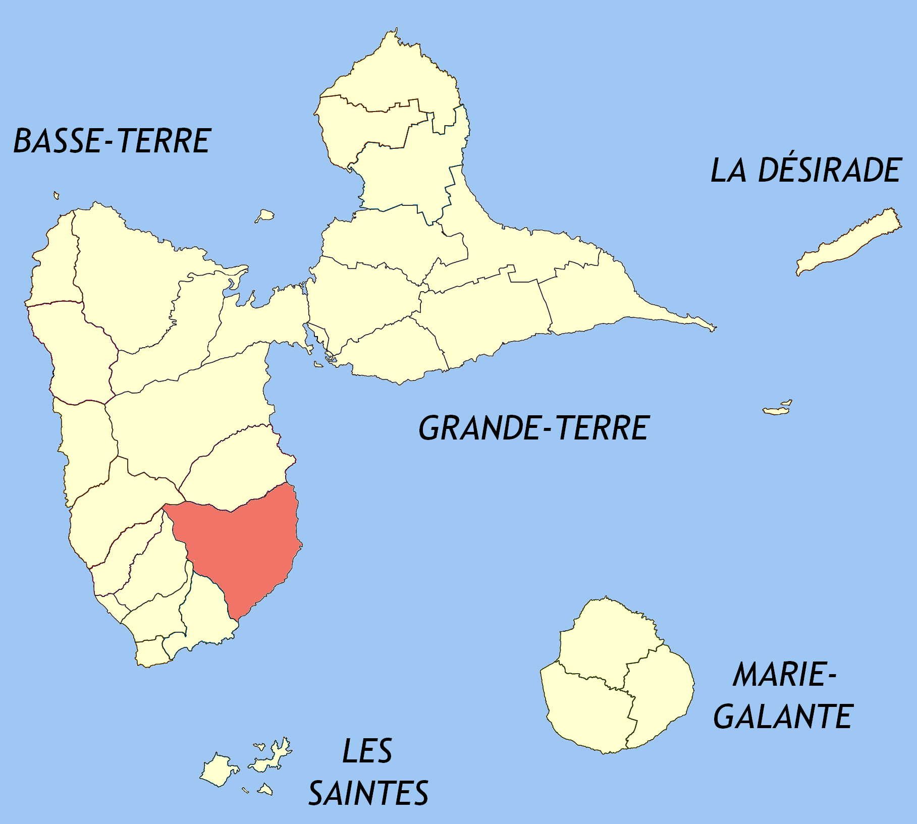 Created map myself.